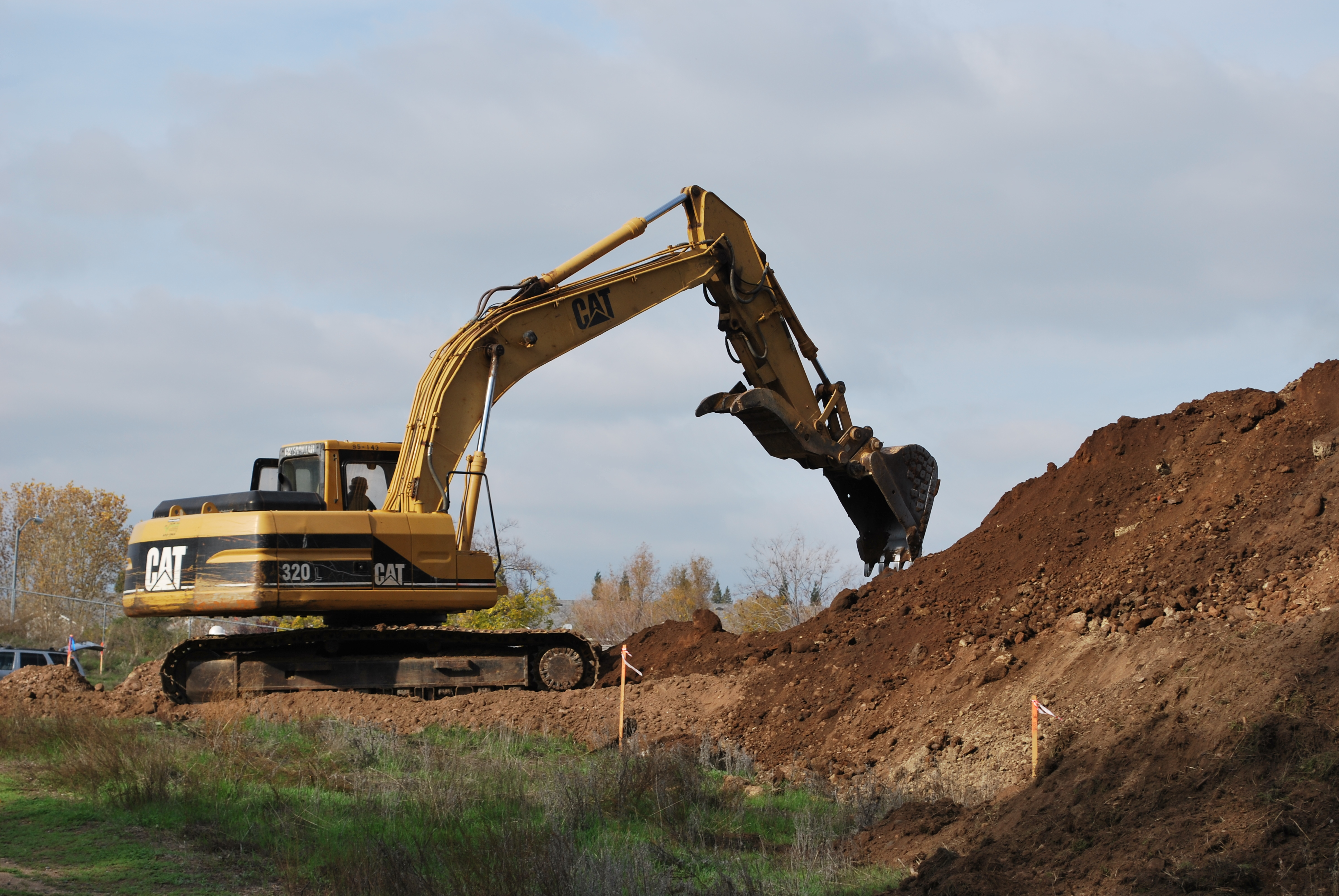 The Caterpillar Medium Hydraulic Excavators - model 320.